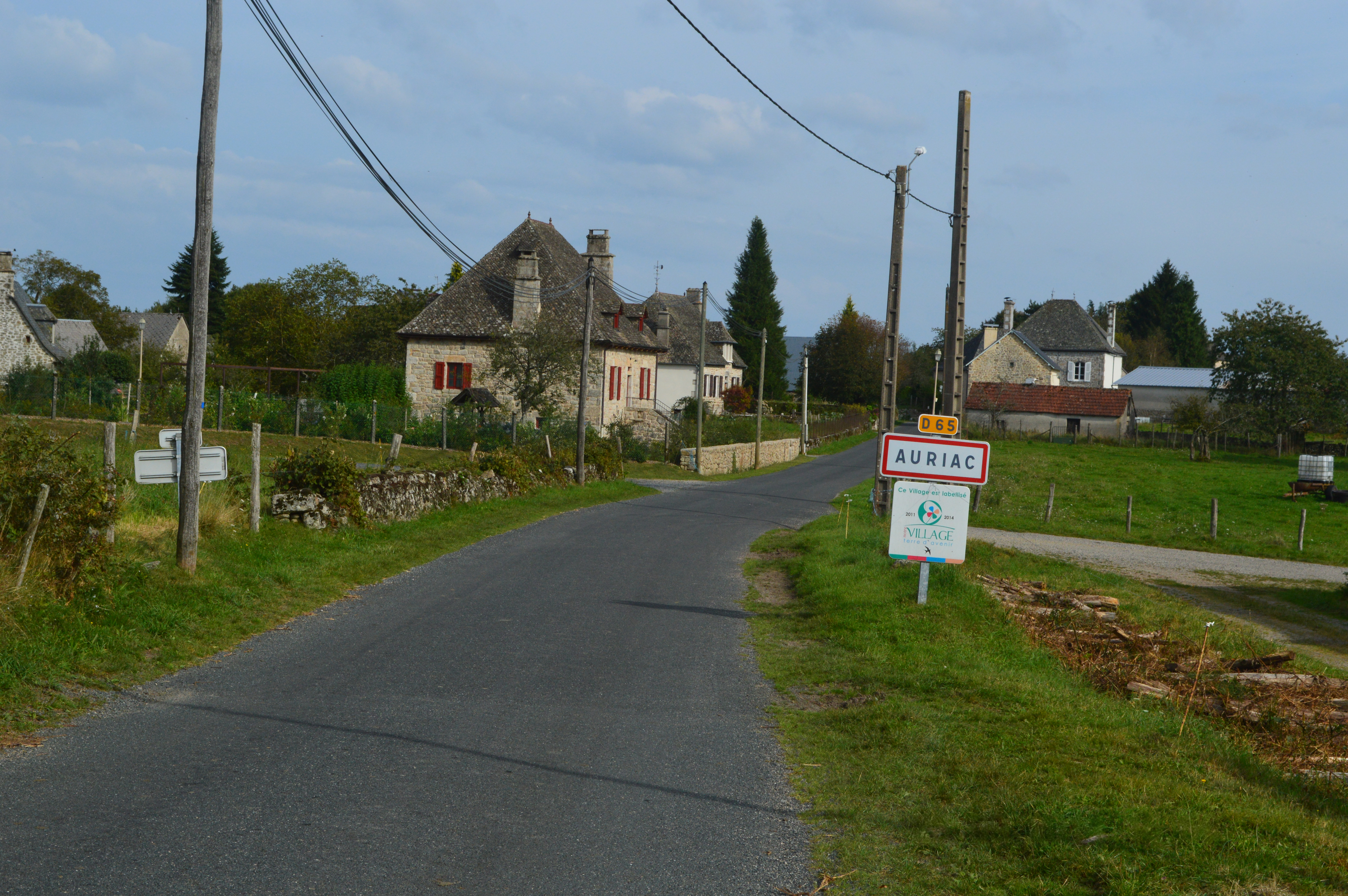 The entry to Auriac